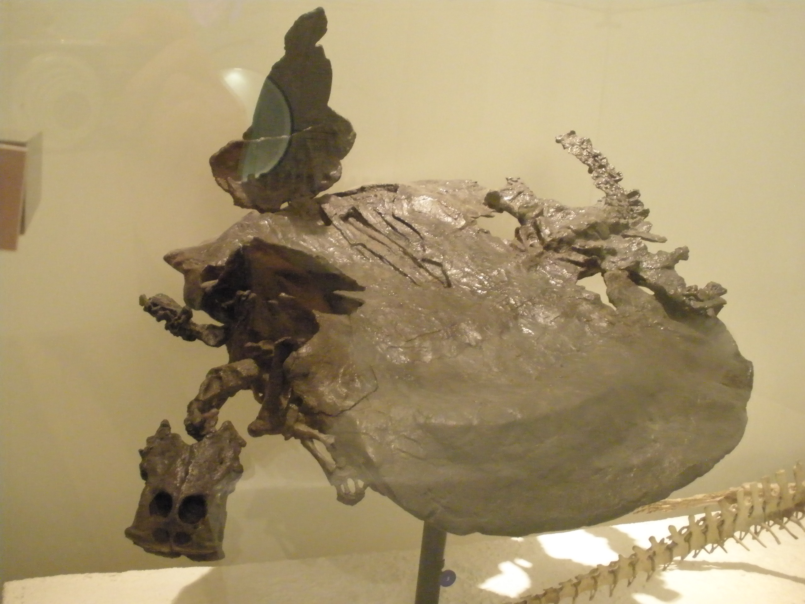 Skeleton of Henodus chelyops, a fossil placodont DateApril 2008Sourcetook the foto on the "American Museum of Natural History" in New YorkAuthorGhedoghedoPermission (Reusing this file)